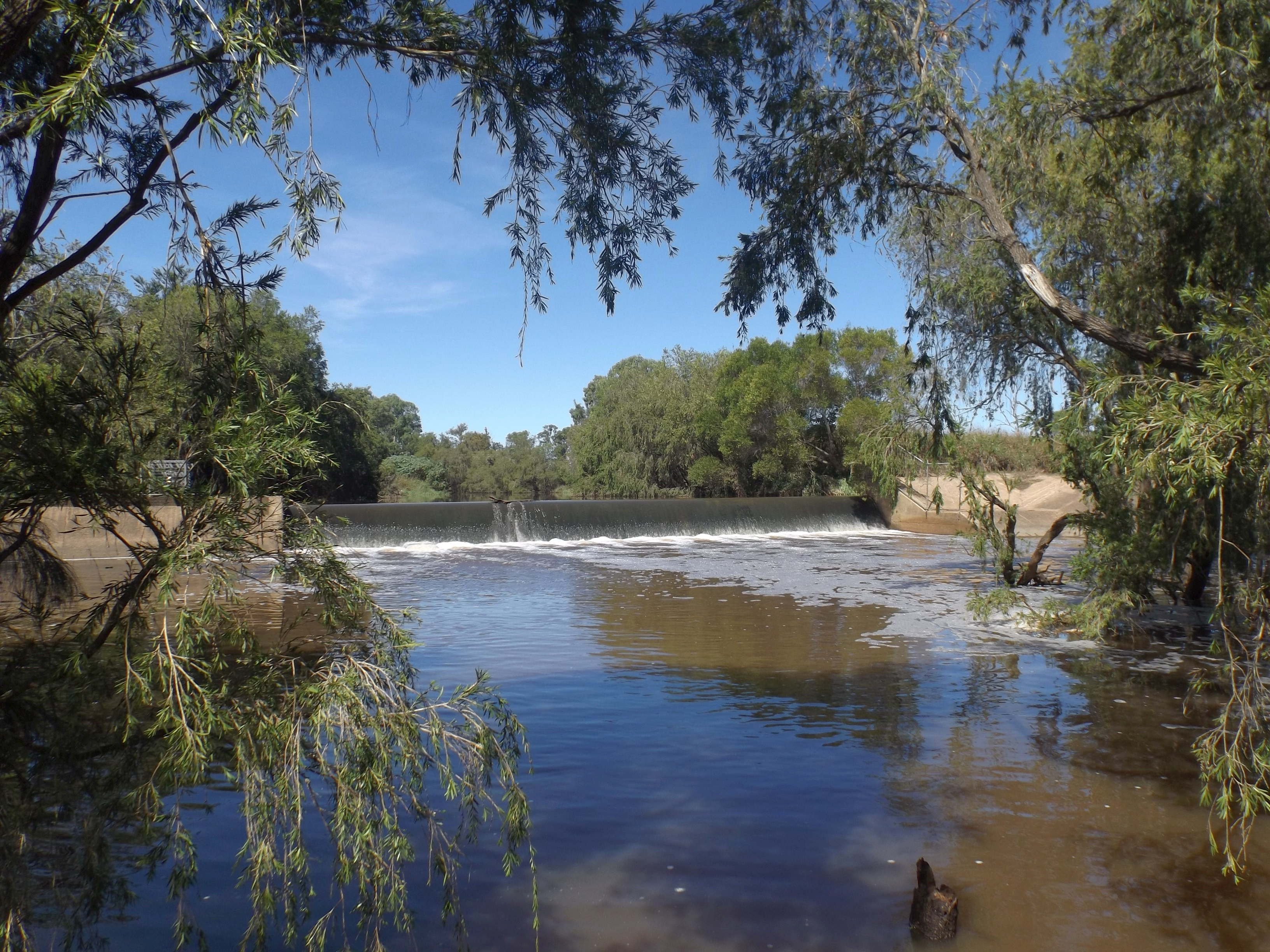 Churchbank Weir in both Mutdapilly and Peak Crossing, Scenic Rim Region, Queensland, Australia.